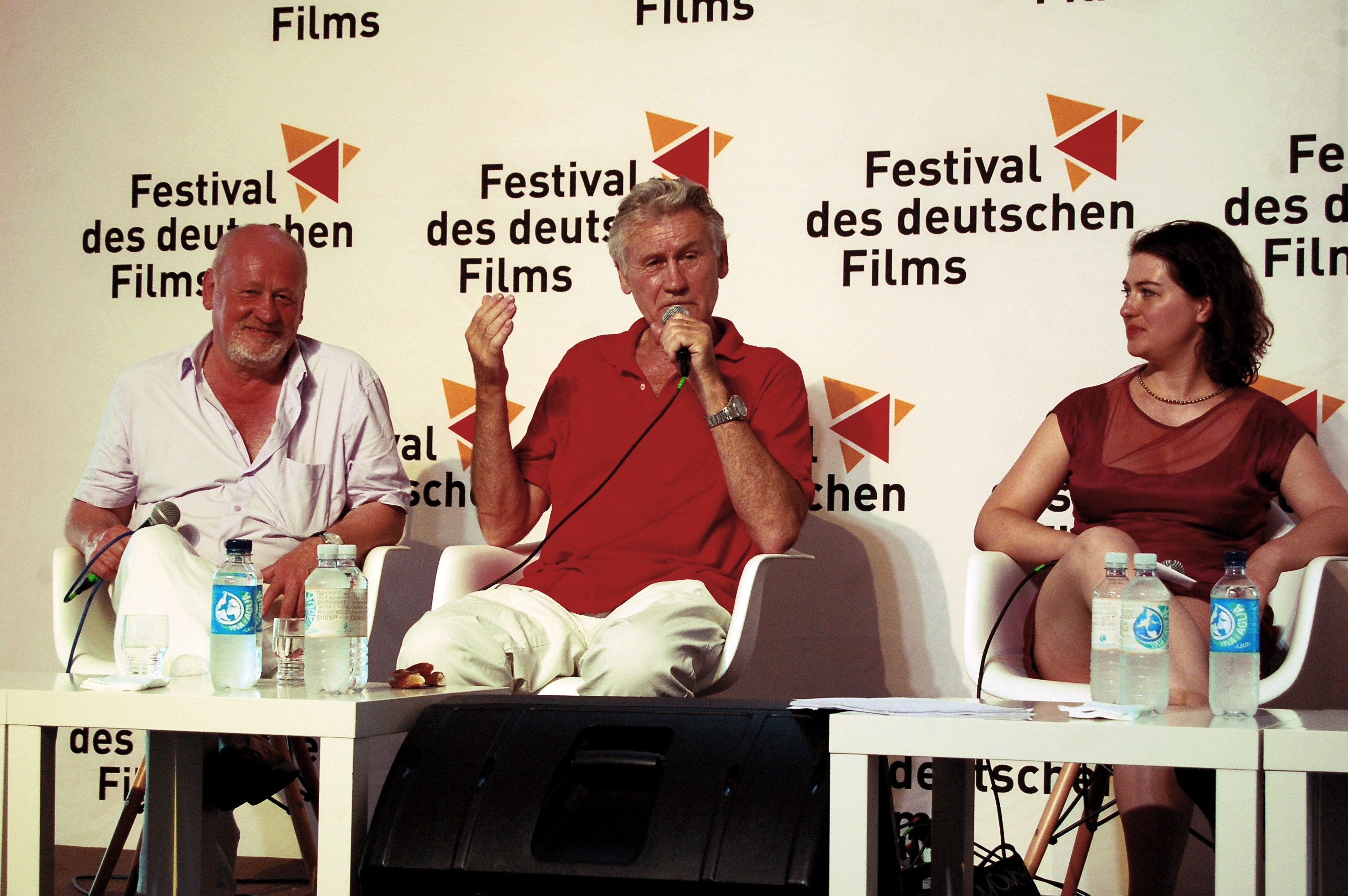 Rudolf Thome and Esther Zimmering are talking with Josef Schnelle about their film "In's Blaue" at the Festival des deutschen Films (Festival for the german movie)